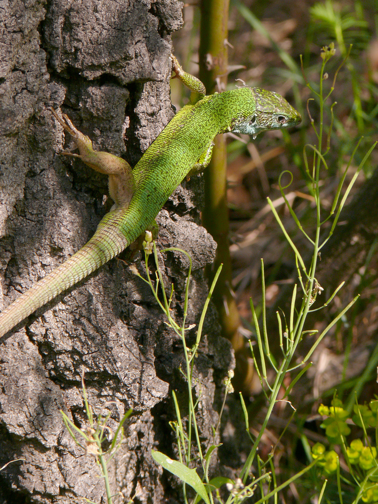 Male European green lizard (Nature Reserve of Pákozd Logan Stones, Hungary)